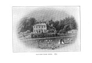 The house where the Ridley family lived in England in 1857.